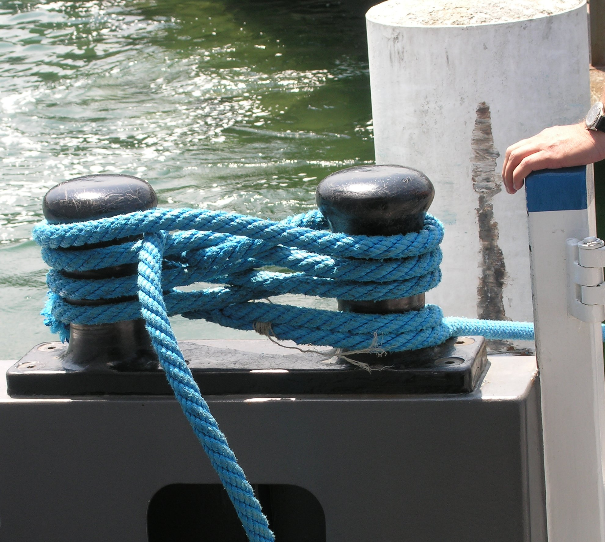 Ship mooring pole, with the rope attached. Used to attach the about 260 t ship in the Zurich lake.